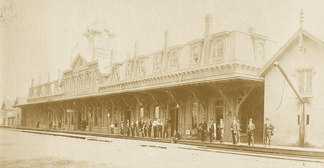 The second Stamford station photographed in 1868